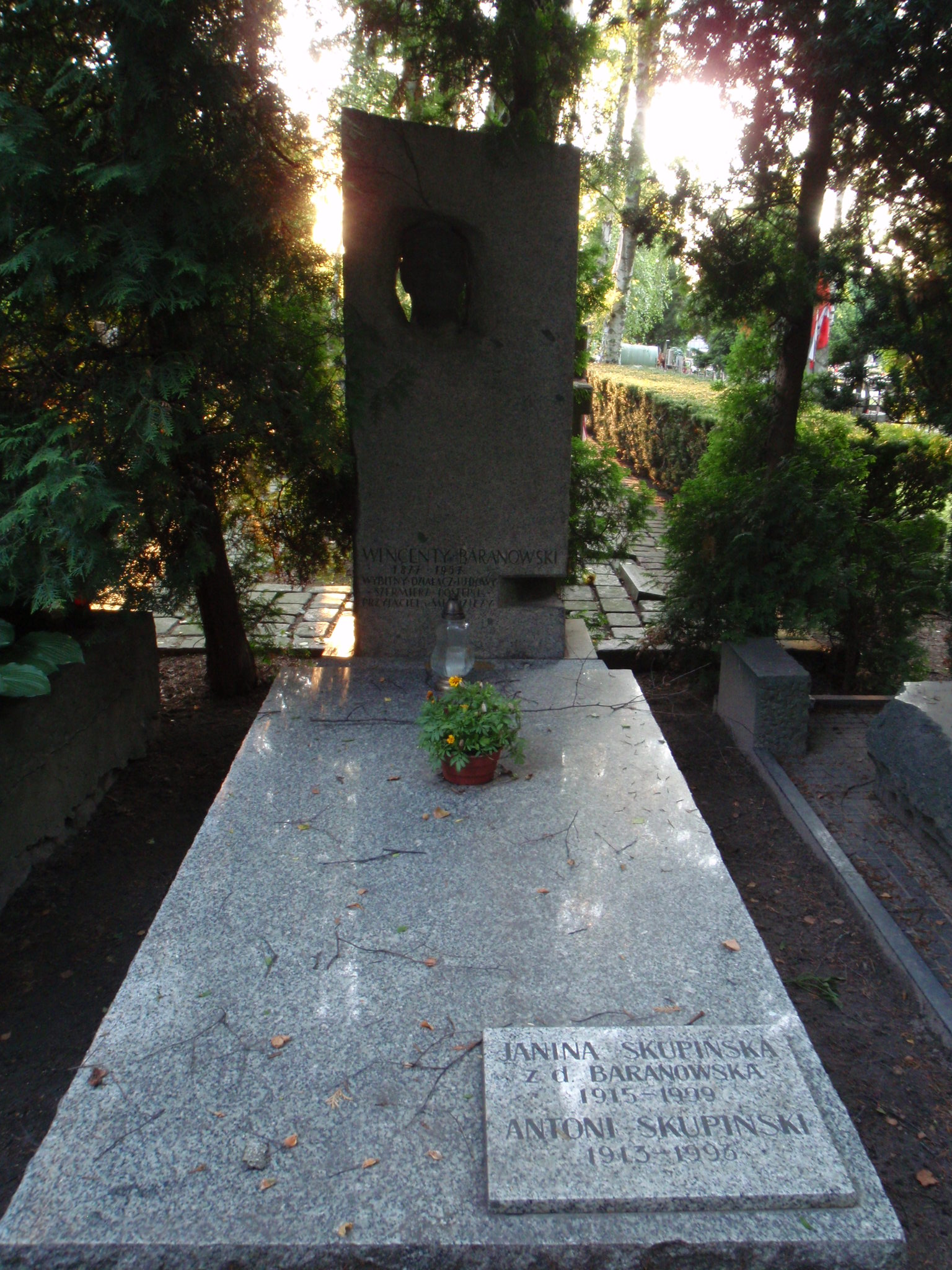 Grave of Wincenty Baranowski